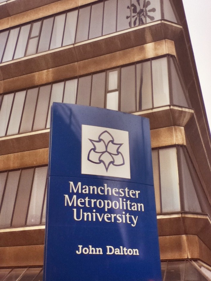 John Dalton House, Manchester